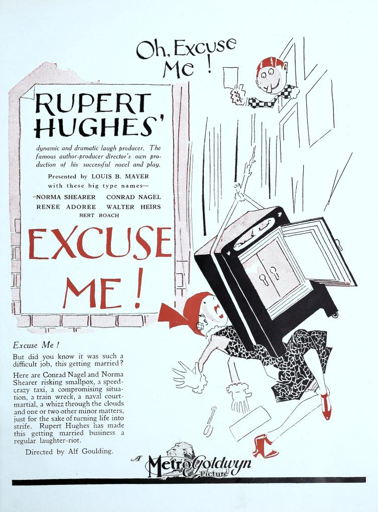 Poster for the 1925 film "Excuse Me"